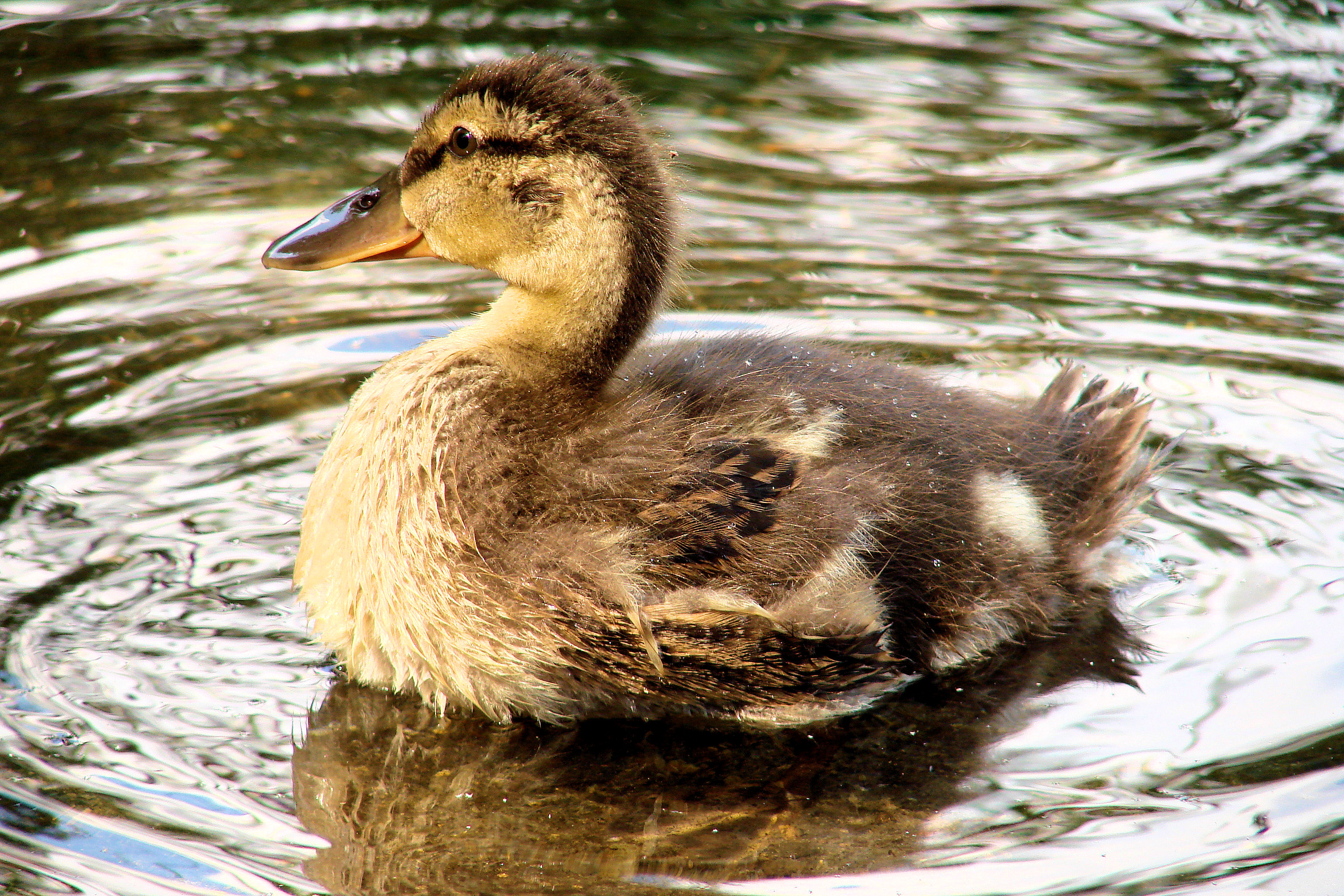 Photo of a duck taken in nature reserve Zbiornik Pogoria II in Dąbrowa Górnicza, Poland